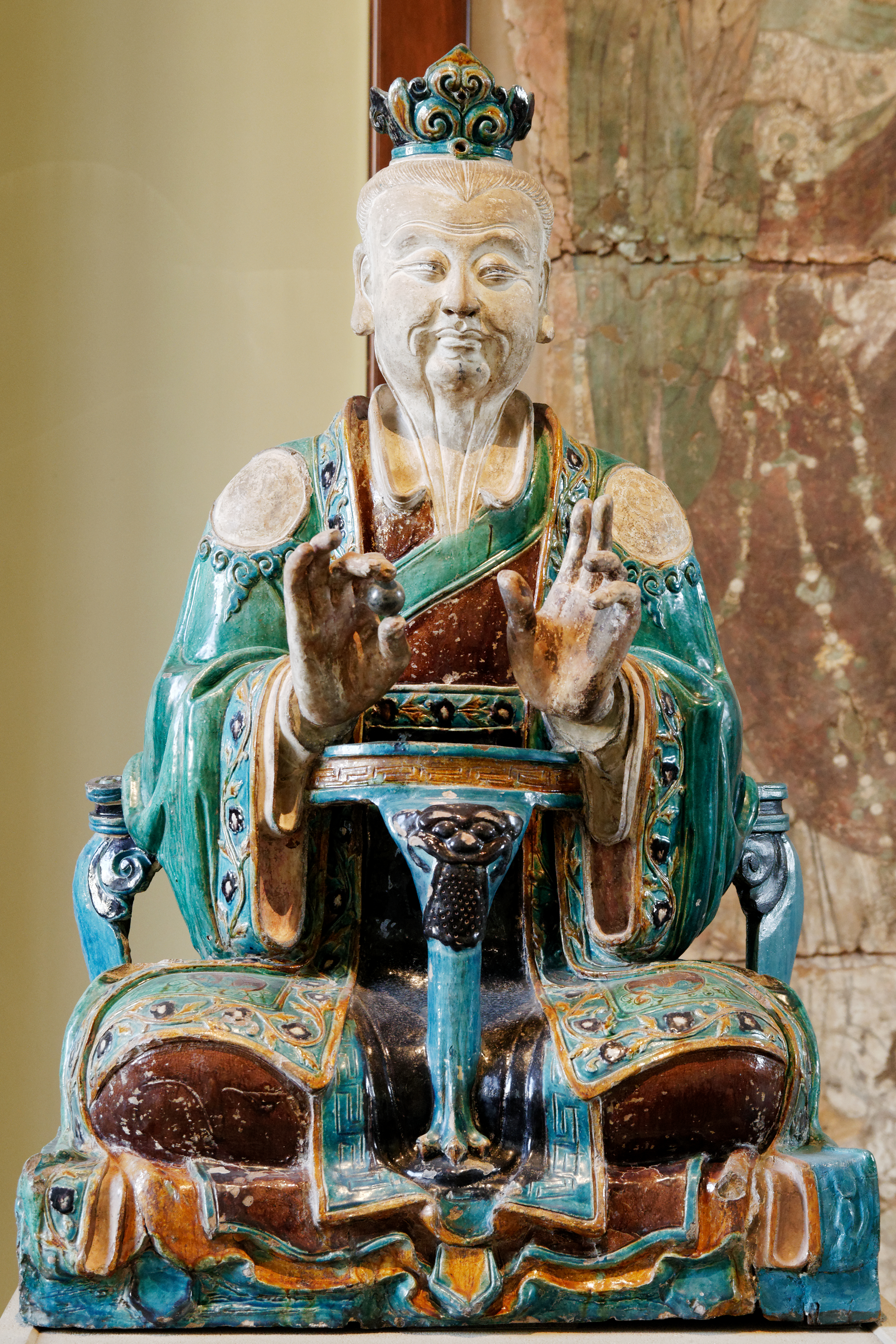 Daoist deity, Ming dynasty. Possibly made in Shanxi.